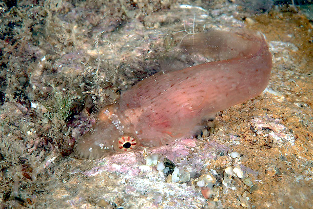 Lepadogaster candolii Photographed near Tuscany coasts (Italy). Photo by Stefano Guerrieri.